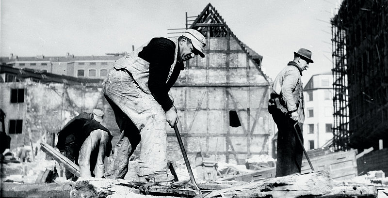 Demolishions in the Borgergade-Adelgade neighbourhood in Copenhagen, Denmark. The Mint Master's House seen in the background. Early 1940s.